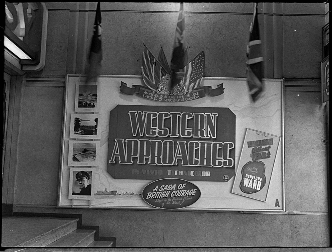 Premiere of "Western Approaches", Embassy Theatre (taken for British Empire Films)